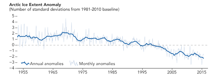 Arctic sea ice extent anomaly.